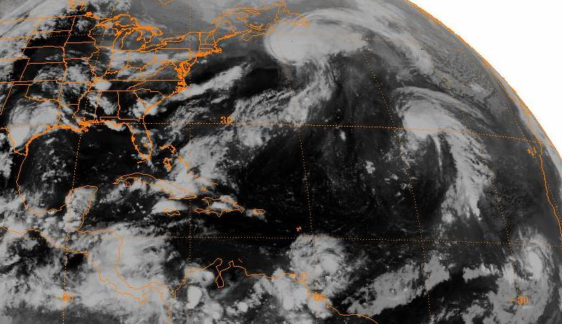 A satellite image taken on September 8, 1980. Hurricane Frances is near Africa, Tropical Storm Earl is in the open Atlantic near 30 degrees north, Hurricane Georges is just south of Newfoundland, and the remnants of Tropical Storm Danielle are centered over Texas.